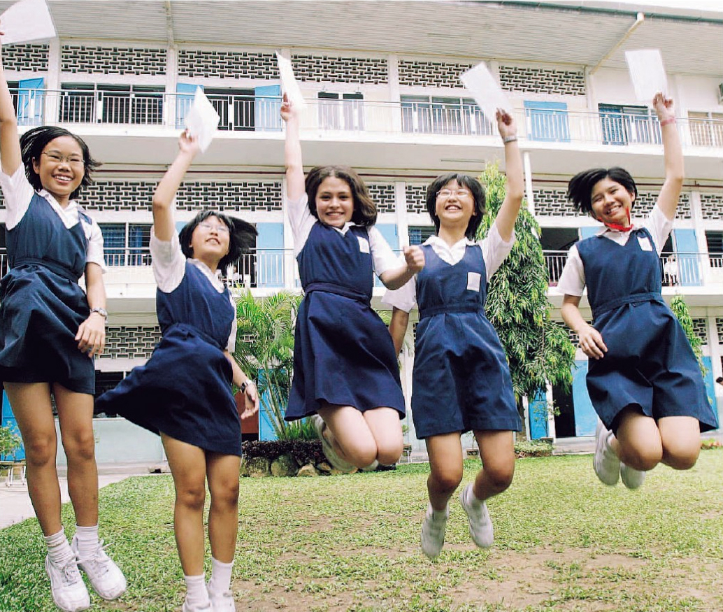 5 students from SJK(C)Perempuan Cina jumping in joy when they received excellent results in their UPSR exams.